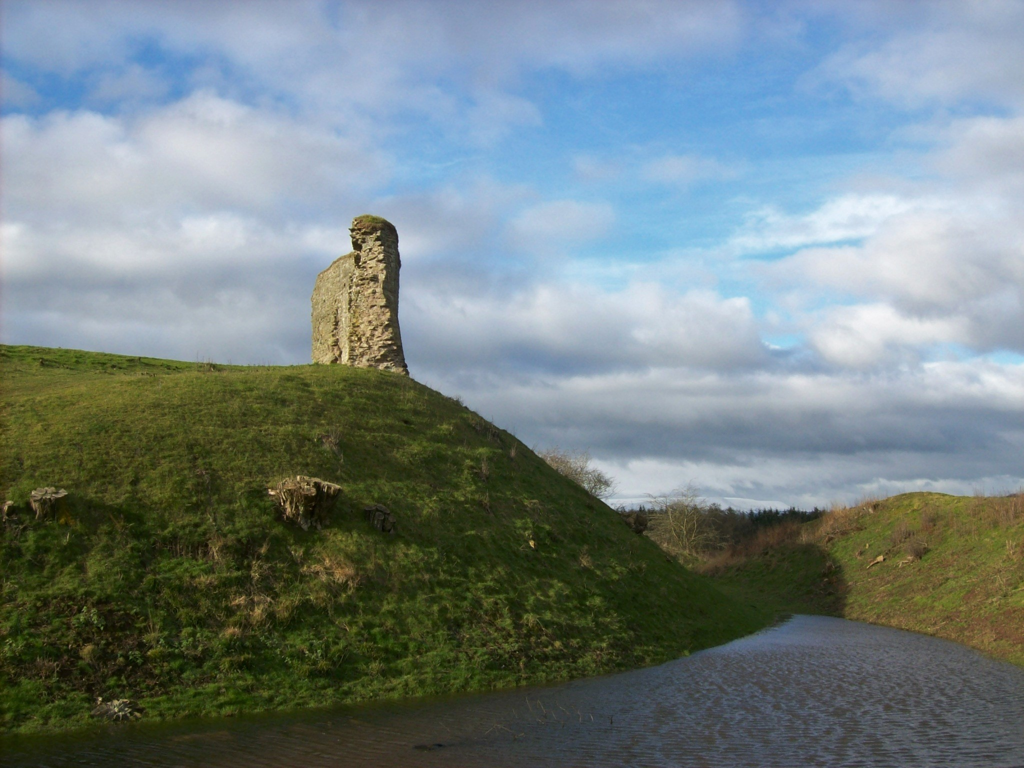 Kilpeck Castle